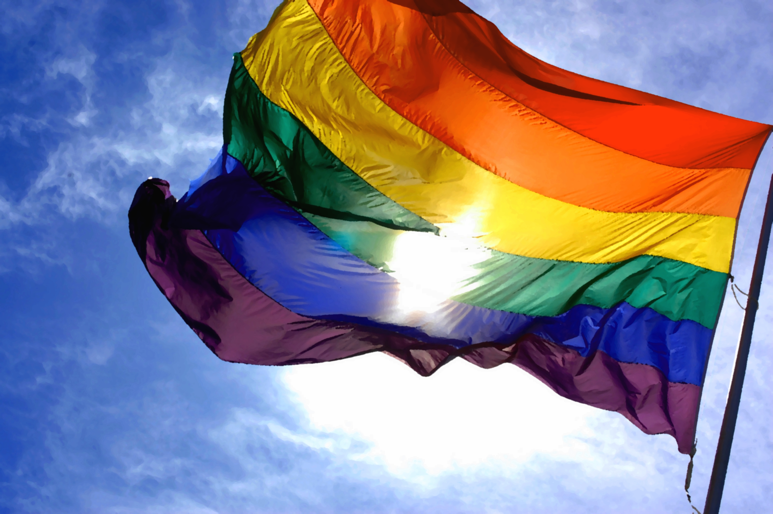 Rainbow flag flapping in the wind with blue skies and the sun.